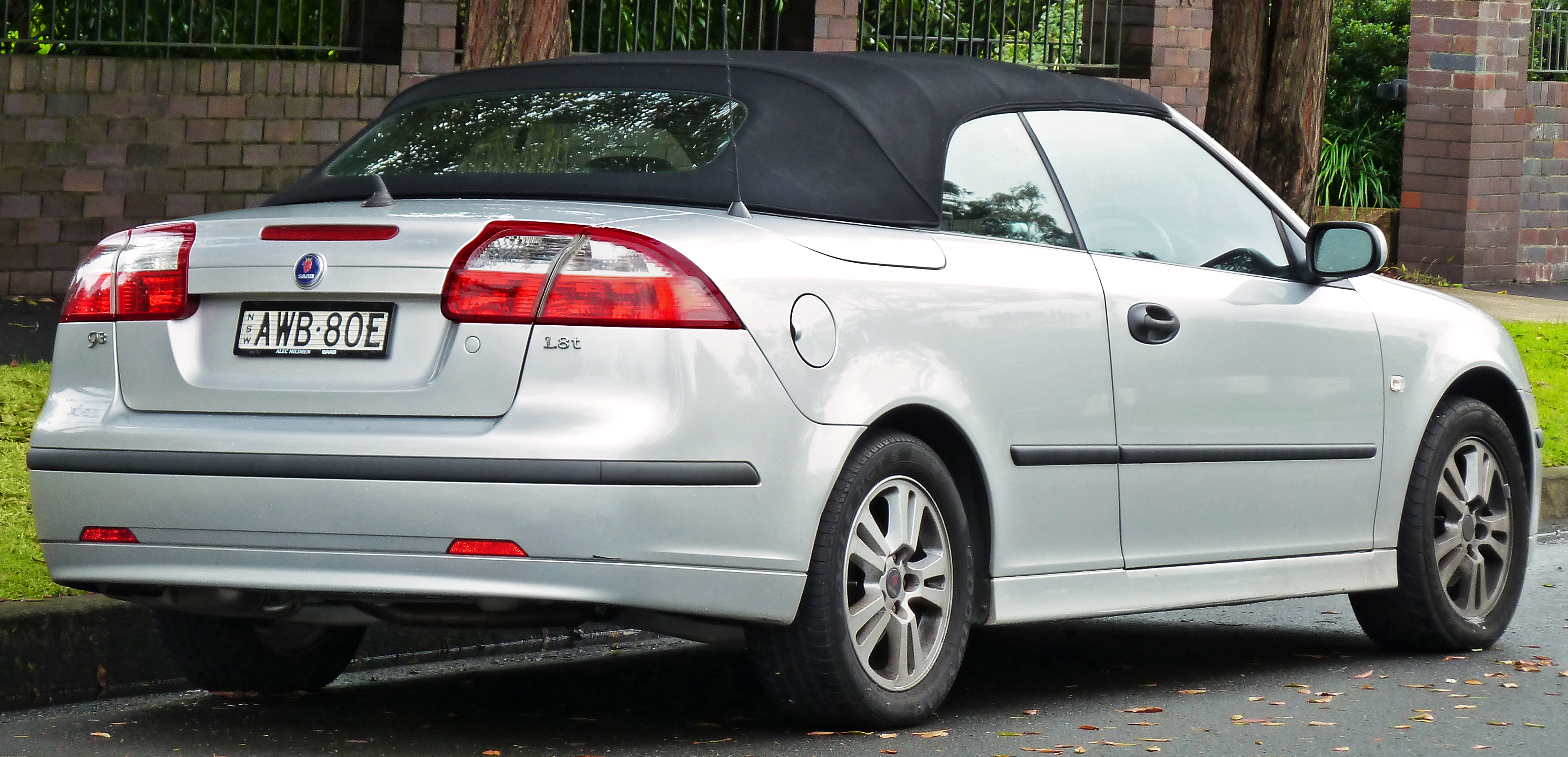 2005–2006 Saab 9-3 Linear 1.8t convertible. Photographed in Gordon, New South Wales, Australia.